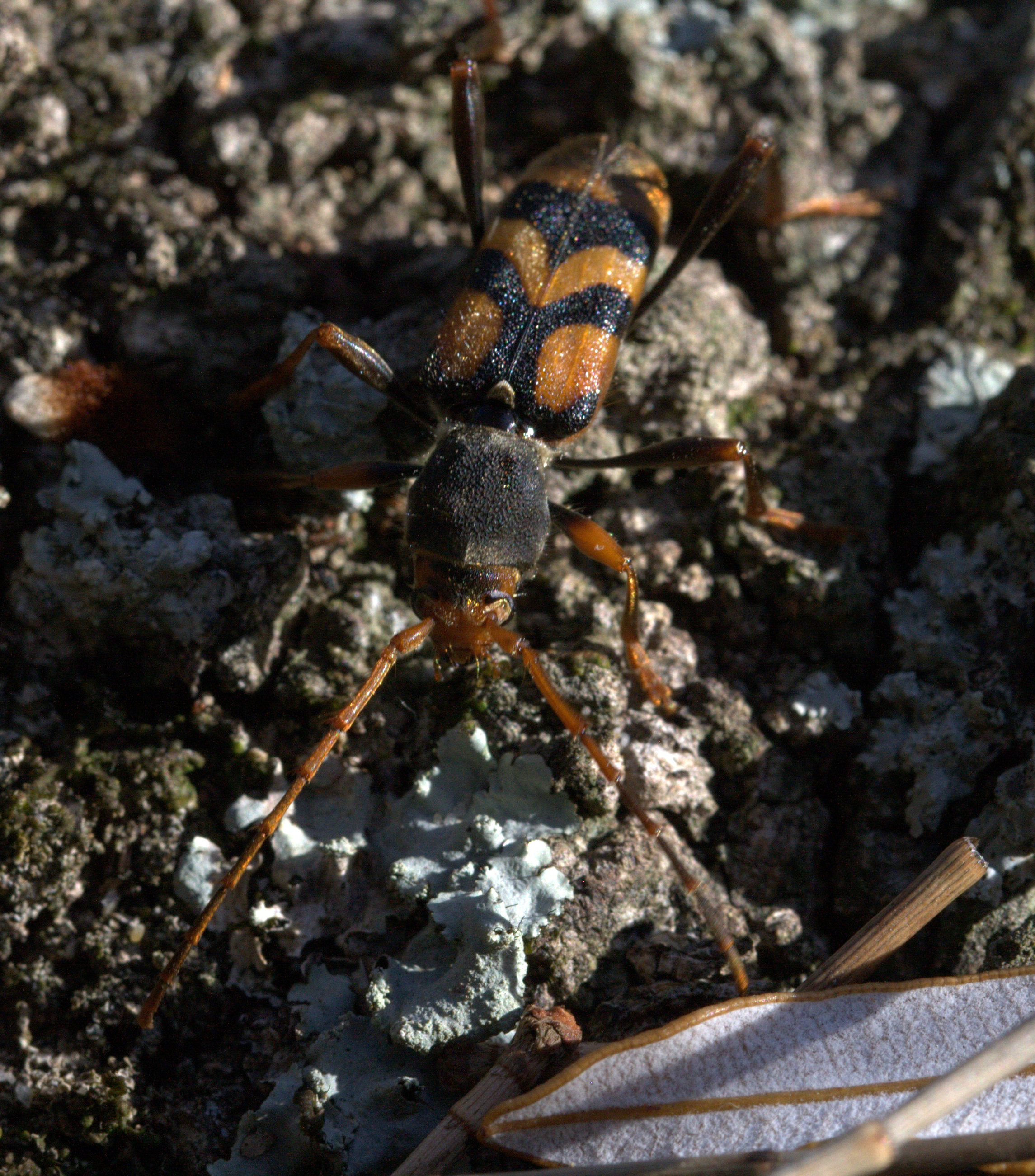 Fauna in Kioloa, New South Wales, Australia.